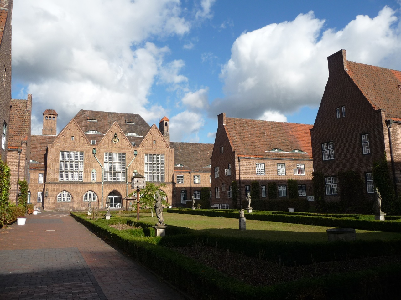 Egestorff-Foundation in Bremen-Tenever, inner courtyard